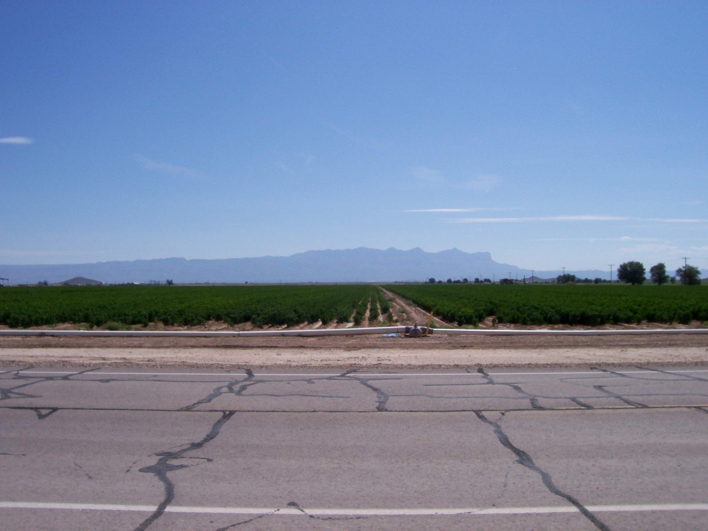 Dell City, TX 79837, USA